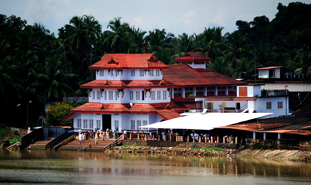 Prassinikkadavu Muthappan Temple.